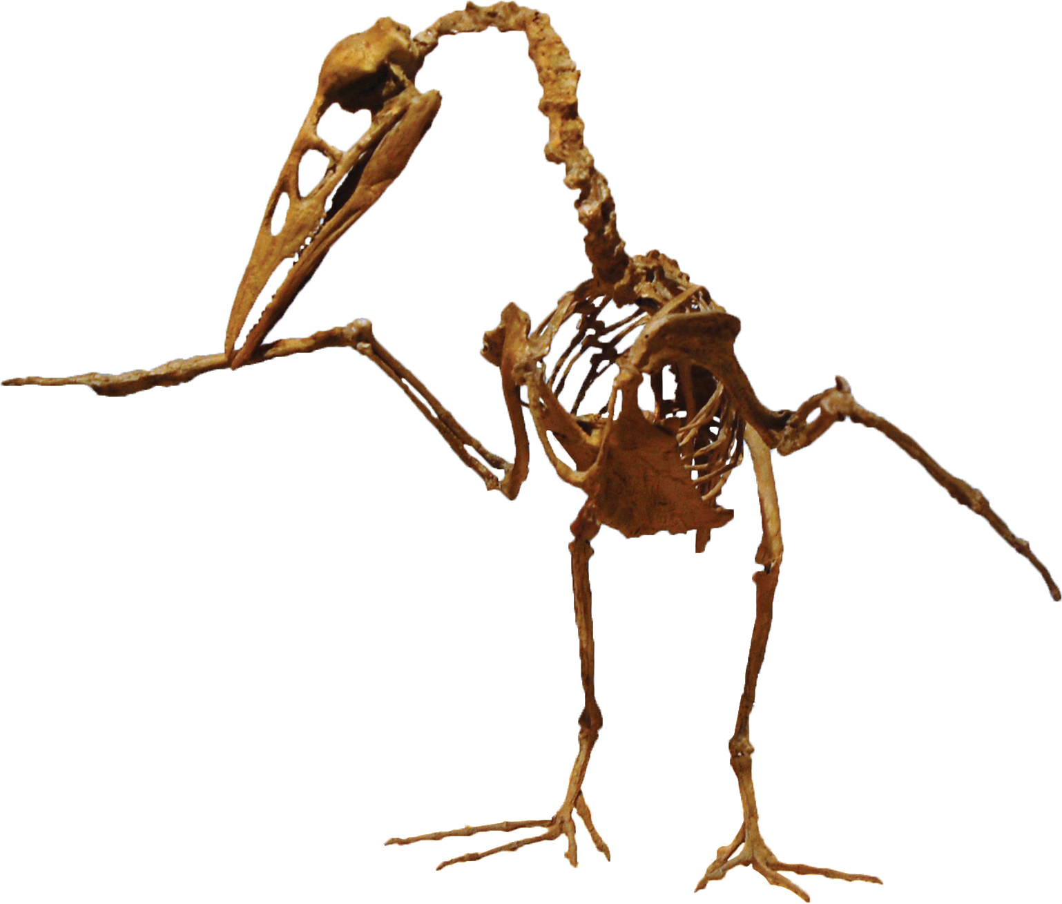 Cast skeleton of Ichthyornis dispar produced by Triebold Paleontology, Inc. and displayed in the Rocky Mountain Dinosaur Resource Center